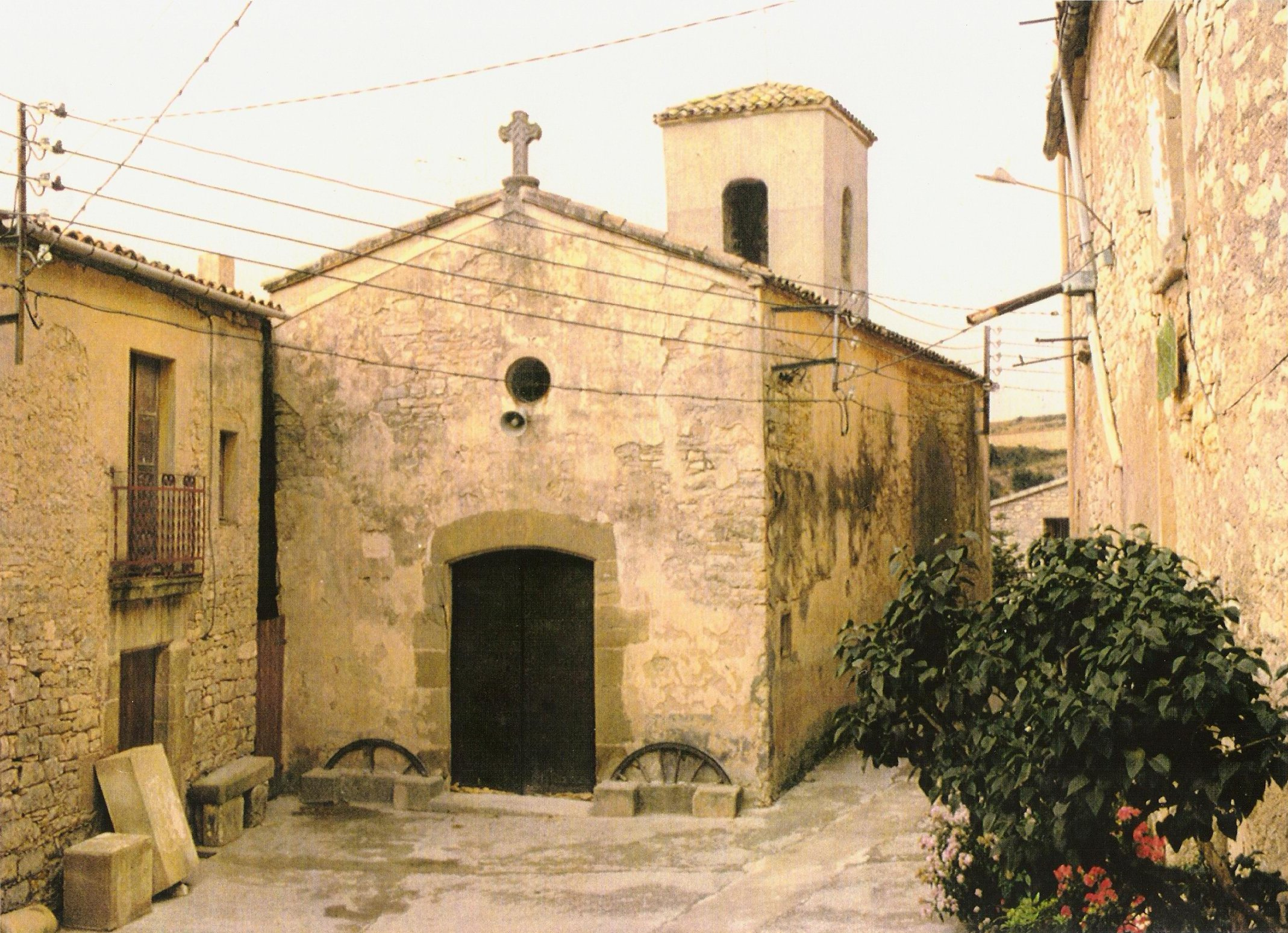 Church of San Vicente, Conill